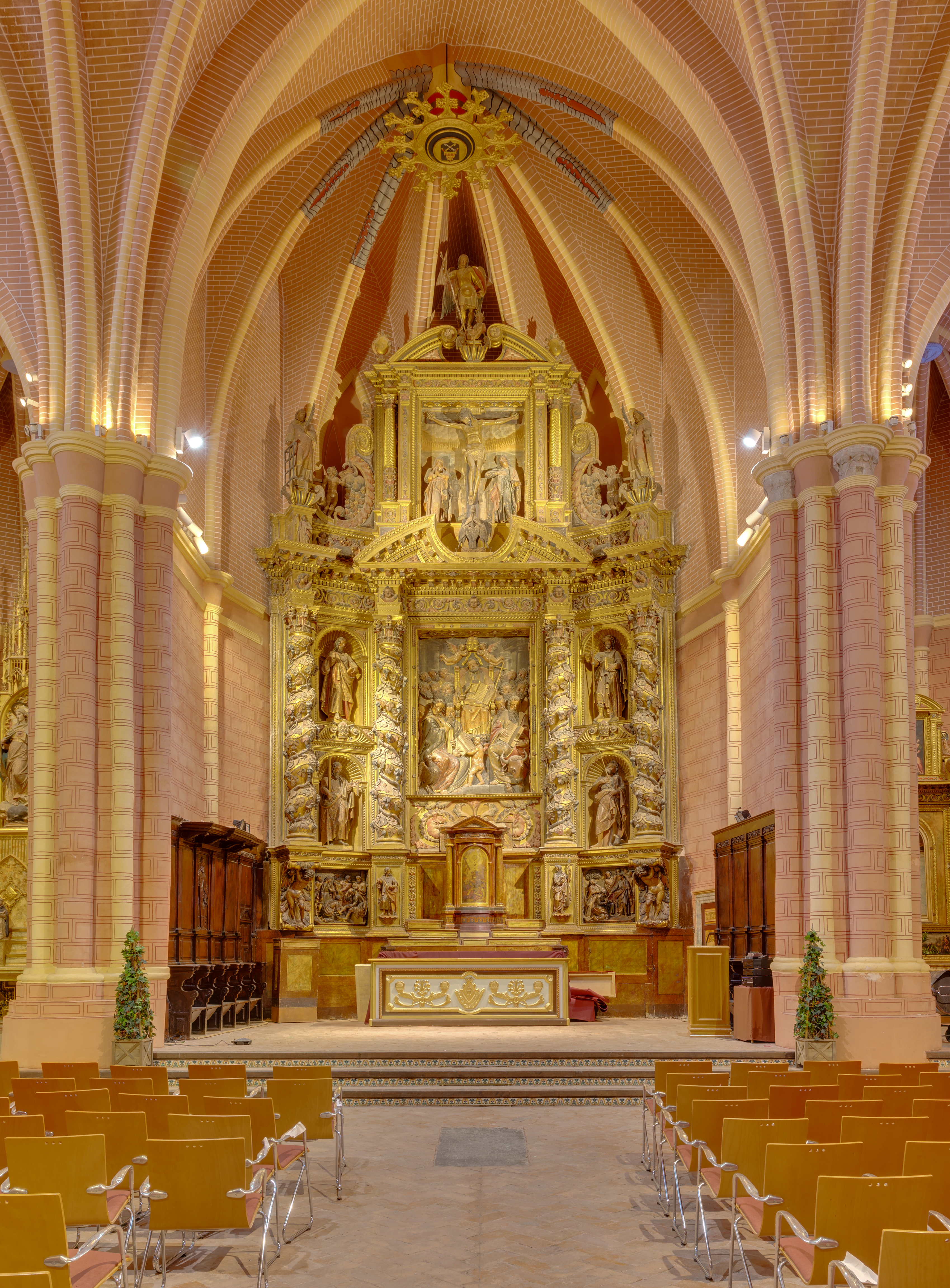 High altar of the gotic church of San Pedro de los Francos, located in Calatayud, Aragon, Spain. The original temple was founded in the 12th century by order of Alfonso I, "The Battler" to offer the french people who helped him in the Battle of Cutanda (1120) against the Almoravids and stayed definitely in Calatayud a place to pray, but the current church was built 2 centuries later.